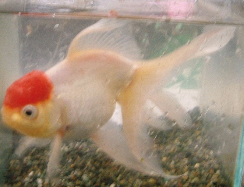 tancho(goldfish)